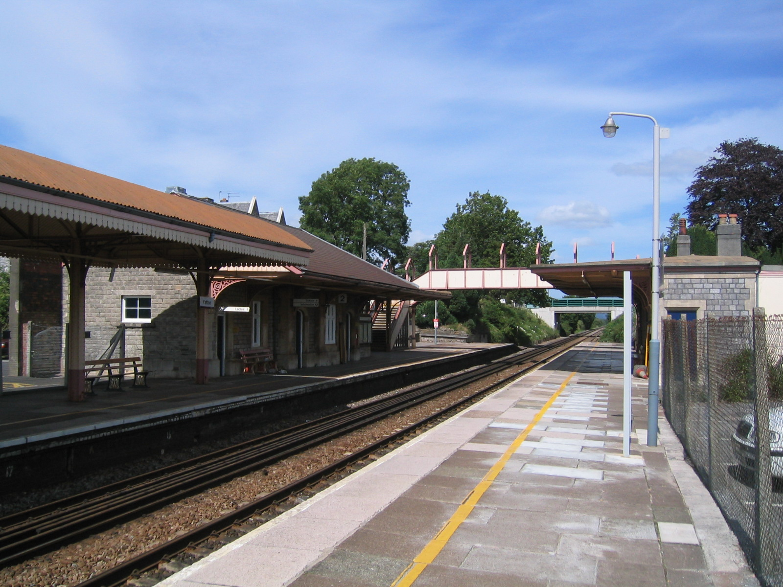 The railway station in Yatton, North Somerset, England.